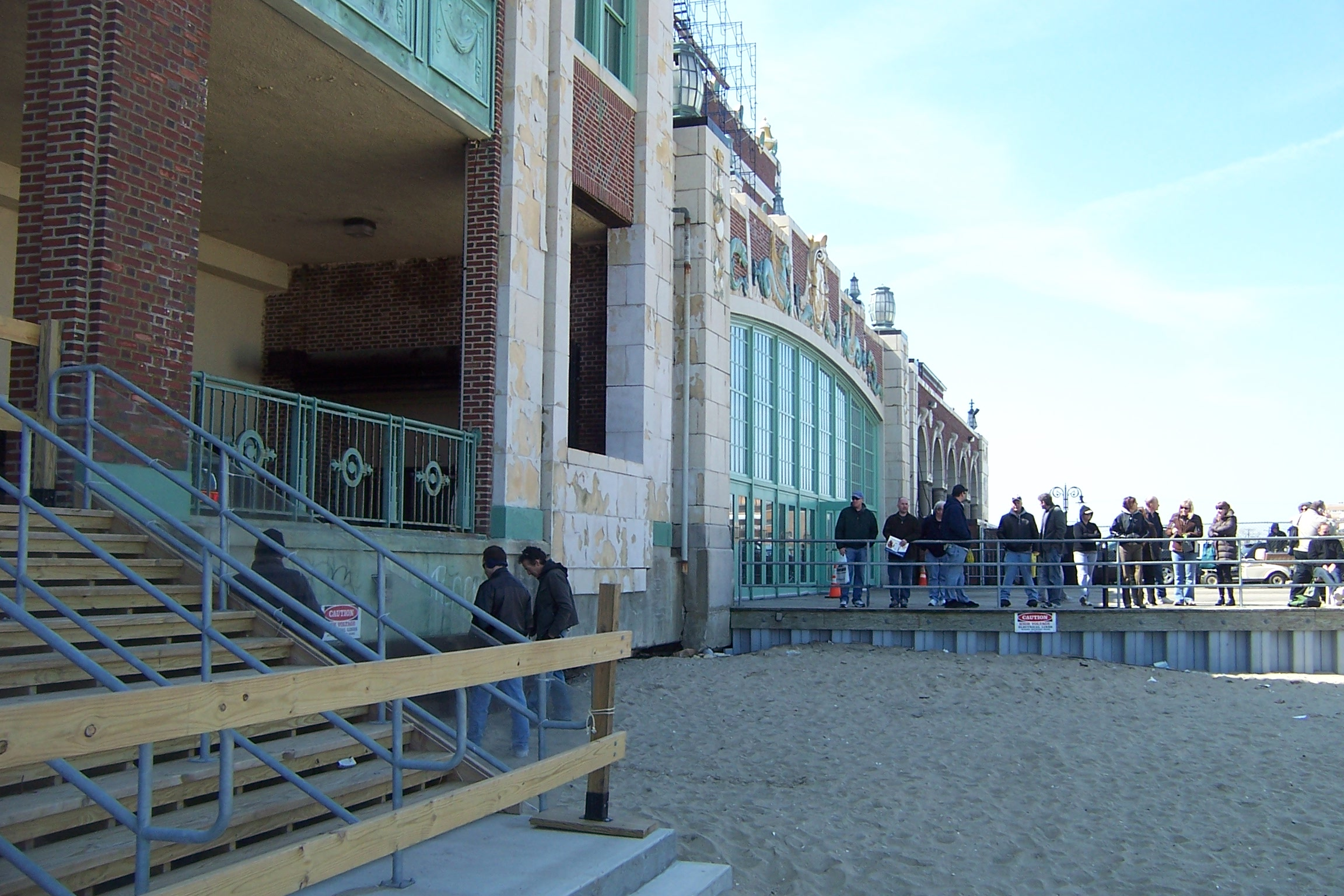 Fans listening outside Asbury Park Convention Hall as Bruce Springsteen and the E Street Band rehearse "Outlaw Pete" for the upcoming Working on a Dream Tour.